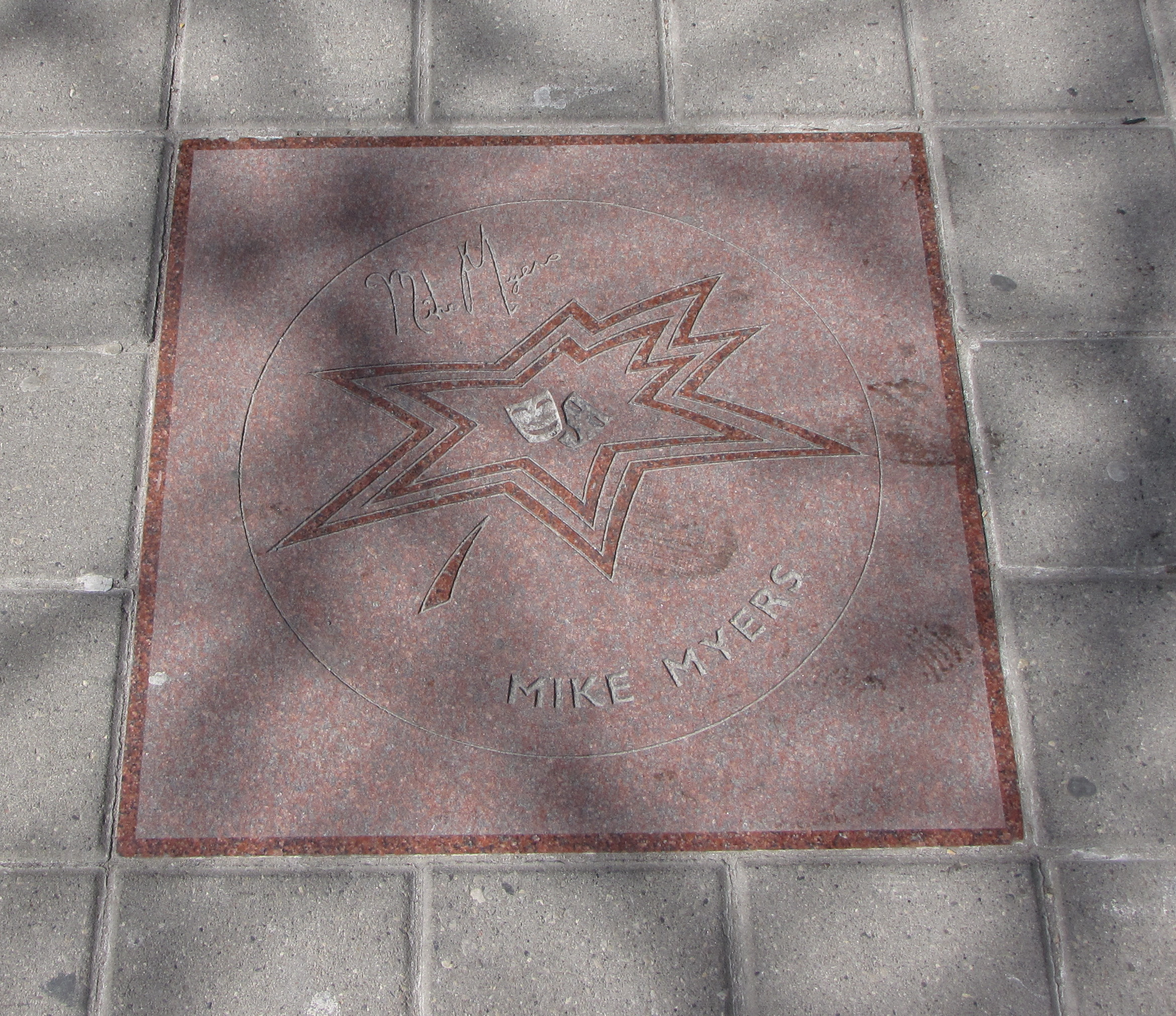 Mike Myers' star on Canada's Walk of Fame